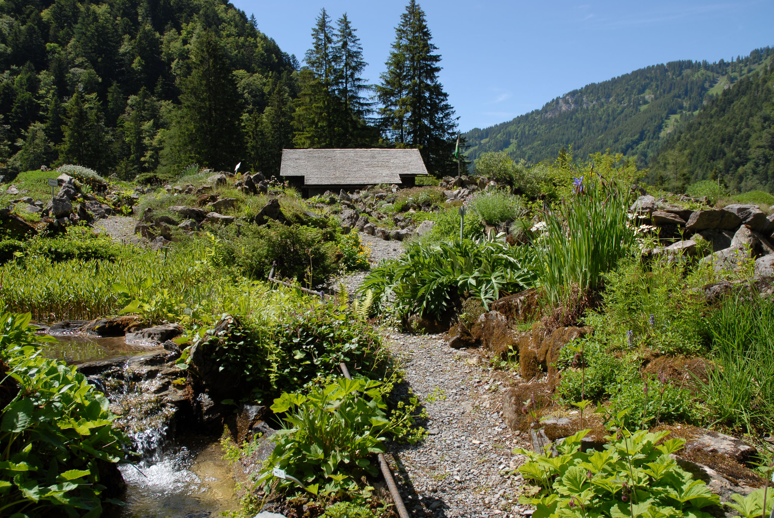 View of the alpine garden, La Thomasia, near Bex, Switerland, which forms part of the Musée et jardins botaniques cantonaux, Canton of Vaud.